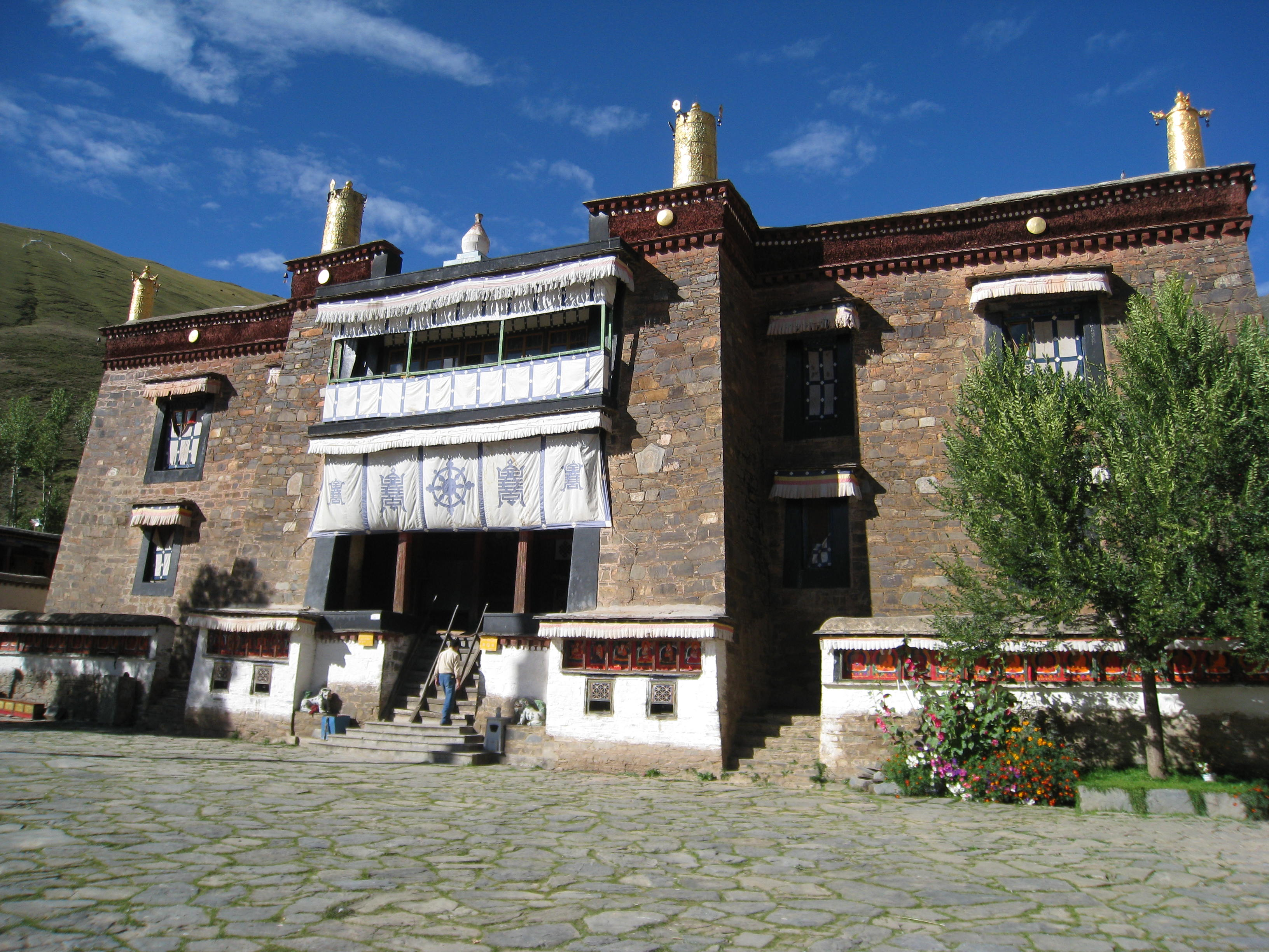 The main building of the Mindroling Monastery in Tibet.